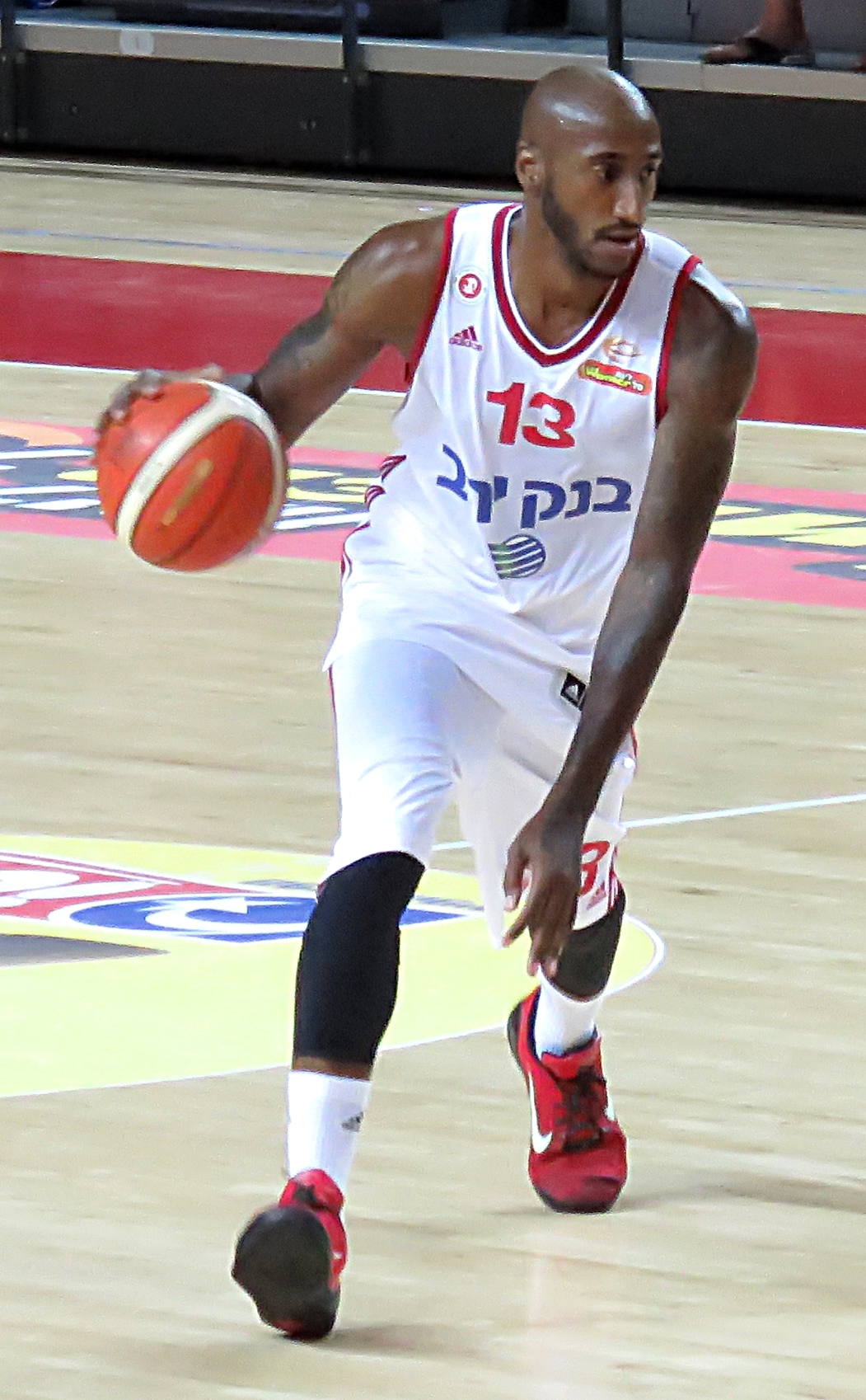 Hapoel Tel Aviv vs. Hapoel Jerusalem, 25 September, 2015